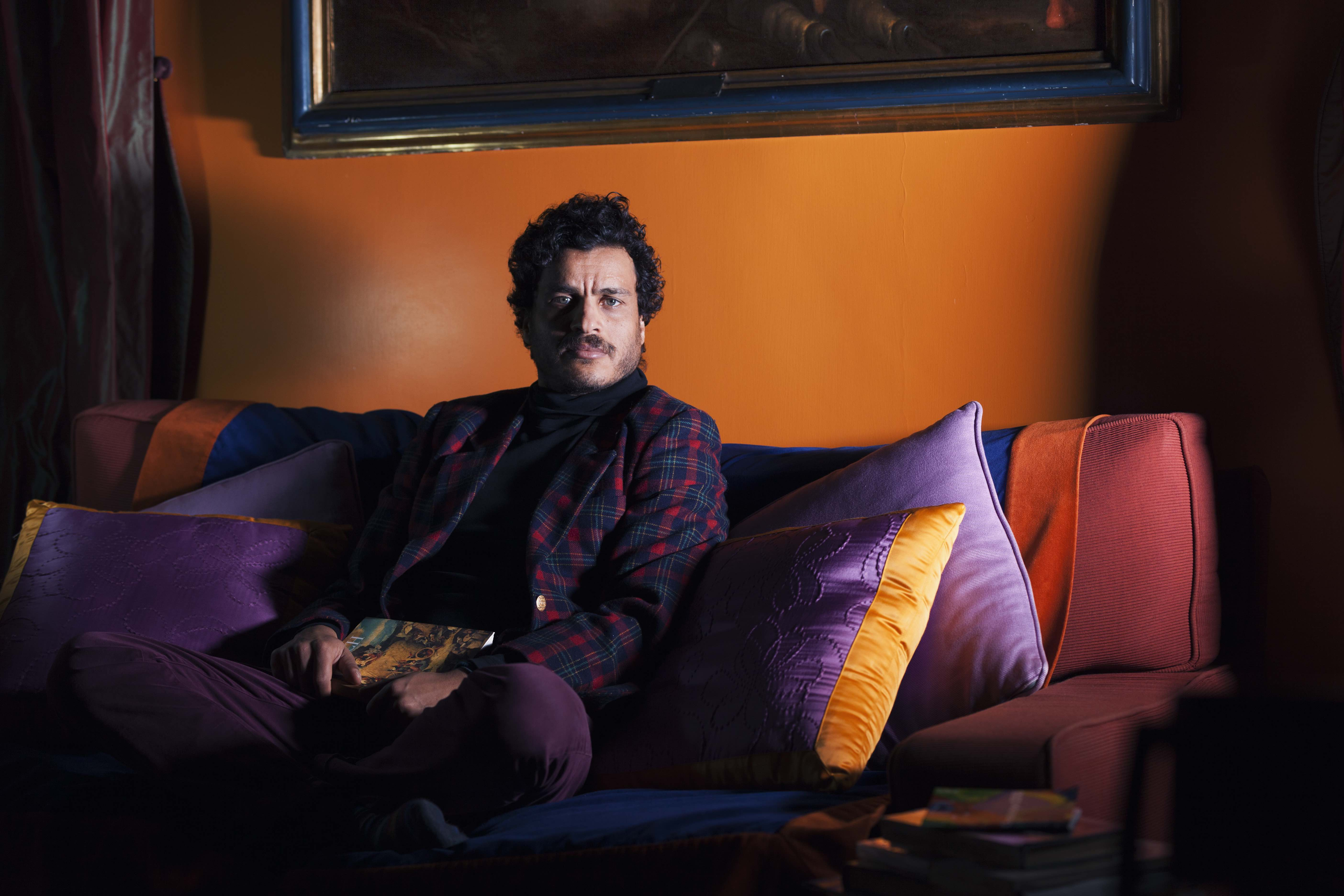 Mohamed Zouaoui